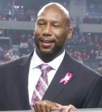 Gerald Riggs at his Ring of Honor induction ceremony, 2013.